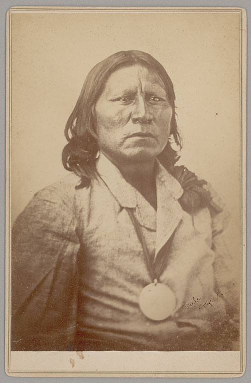 Portrait of Chief Satanta (White Bear) Wearing Peace Medal 1870.